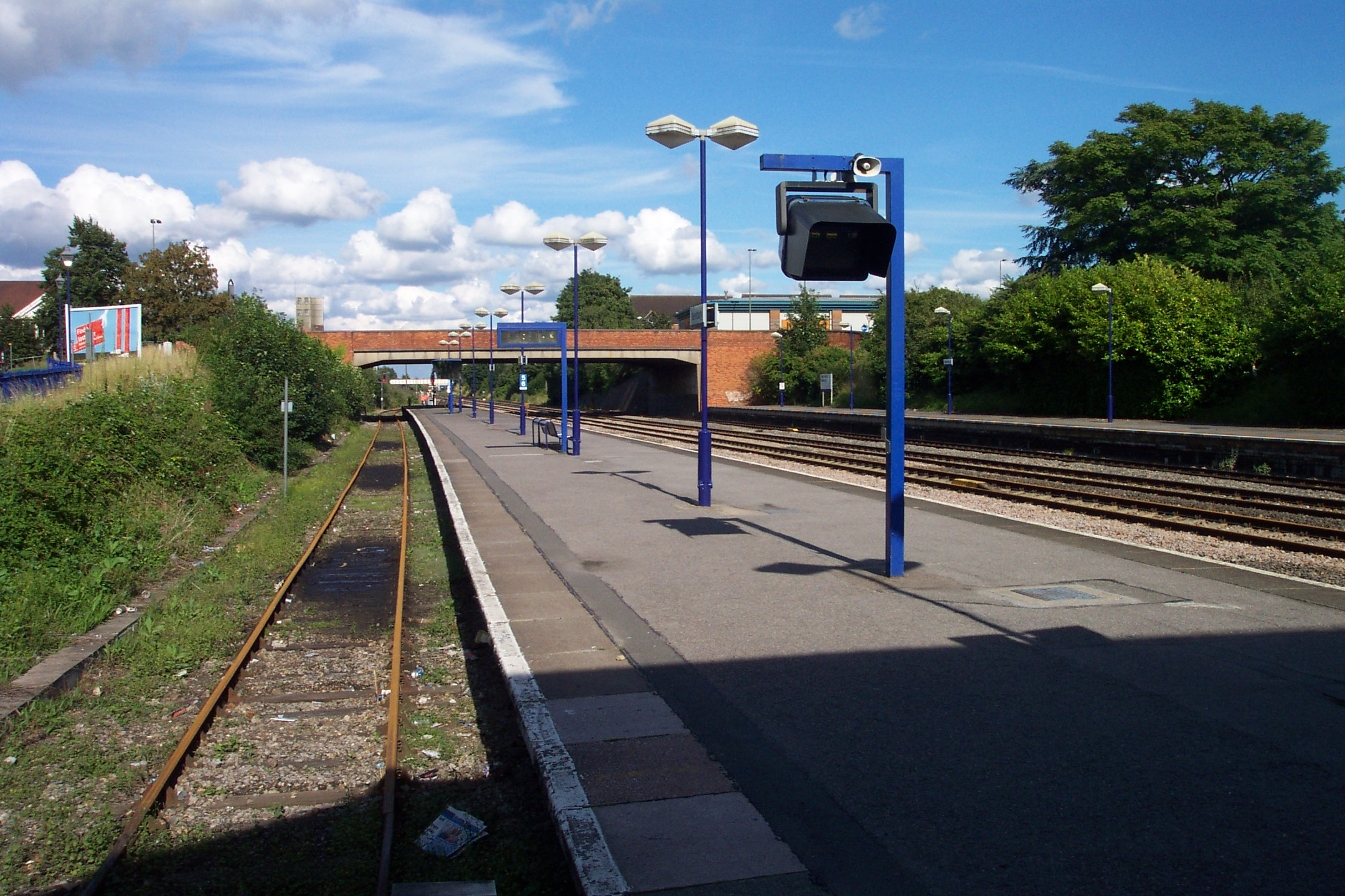 Newbury railway station. Looking east, with the little used bay platform to the left. For more information see the Wikipedia article Newbury railway station.